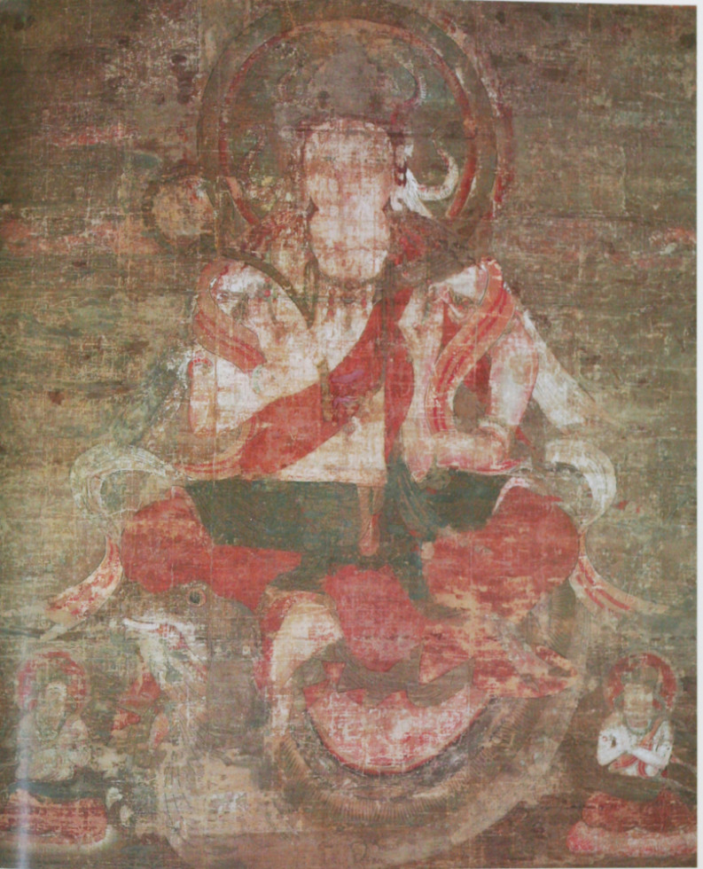 SUITEN(Varbna) one of Twelve Deities Heian period hanging scroll color on silk, about 160.0 cm × 135 cm (63.0 in × 53.0 in) Saidai-ji, Nara, Japan